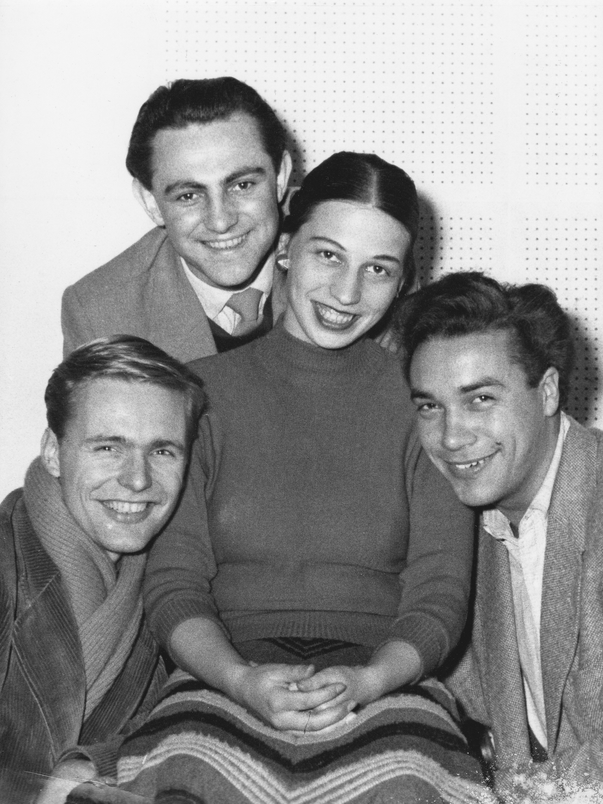 German Cabaret Die Buchfinken 1955: Helmut Griem, Dietrich Neuhaus, Käthe Straßburger, Nils Sustrate